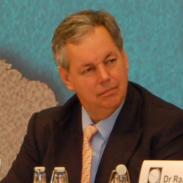 Session on: Disputed Territories and Disputed Oil